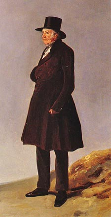 Picture of a portrait of William Youatt, by Richard Ansdell. the portrait itself was at the Royal Agricultural Society of England at least in 1900 (according to the DNB) and (probably) to this day.